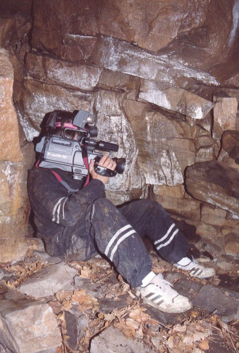 Vadlán Hole in Nagygörbő.